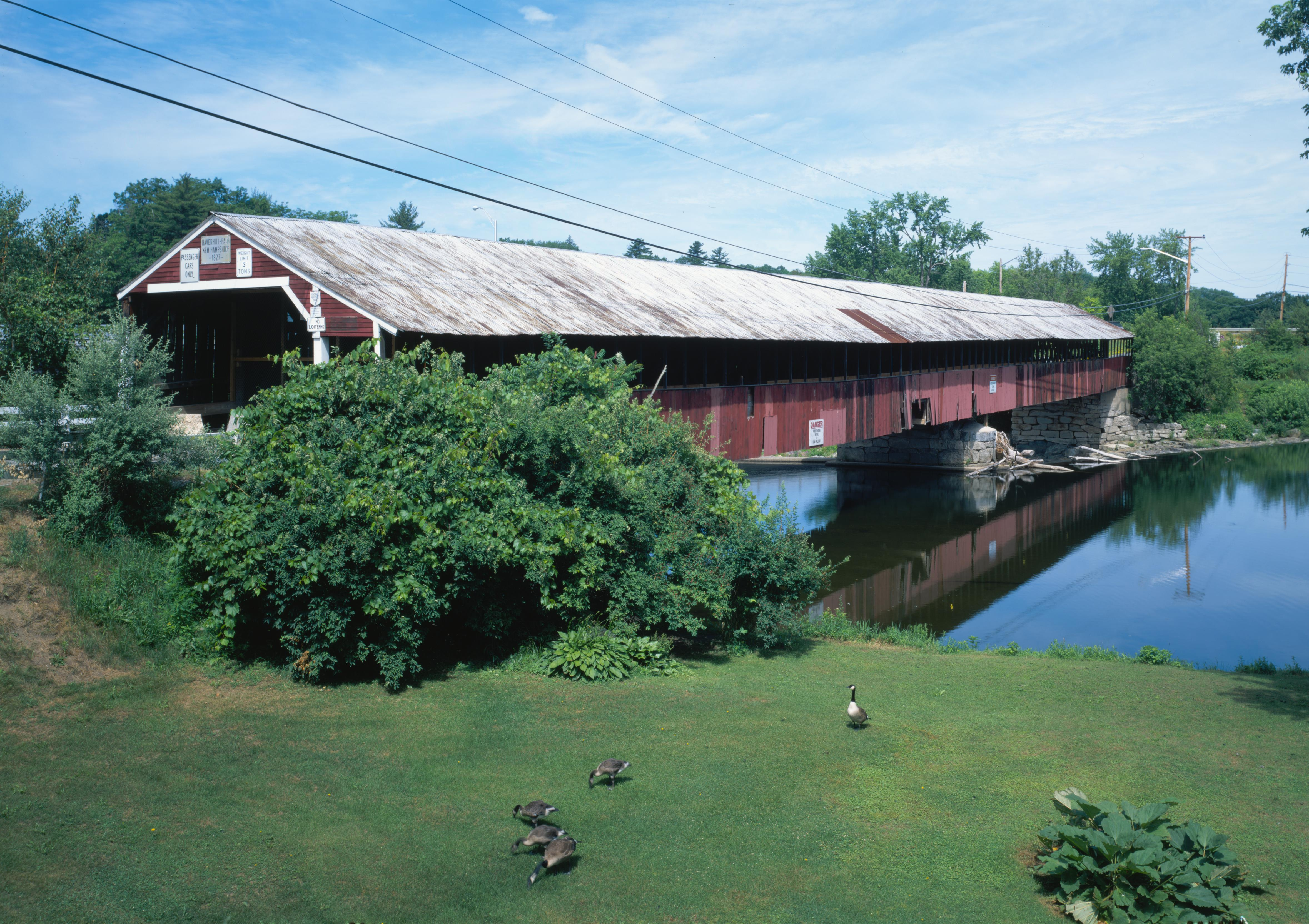 Bath-Haverhill Bridge, Spanning Ammonoosuc River, bypassed section of Amm, Woodsville (Grafton County, New Hampshire)